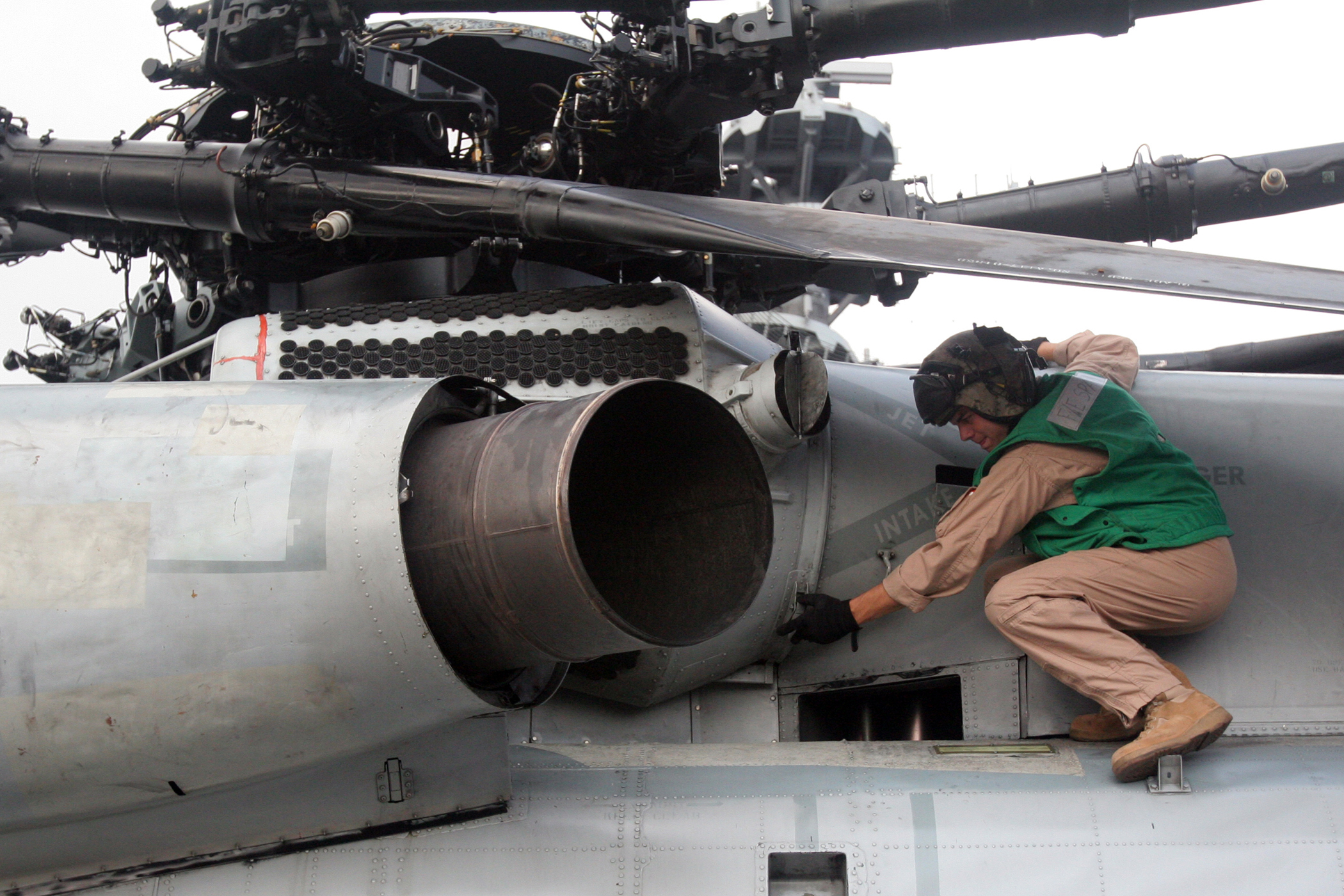 Capt. Pete Lisowski, a CH-53E Super Stallion transport helicopter pilot with Marine Medium Helicopter Squadron 261, performs preflight operations checks on a Super Stallion during the 22nd Marine Expeditionary Unit's Certification Exercise aboard the USS Kearsarge, June 20, 2007. The Marines and sailors of HMM-261 are scheduled to deploy as the Aviation Combat Element of the 22nd MEU later this summer. Photo by: Cpl. Peter R. Miller Photo ID: 200772172145 Submitting Unit: 22nd MEU Photo Date:06/20/2007